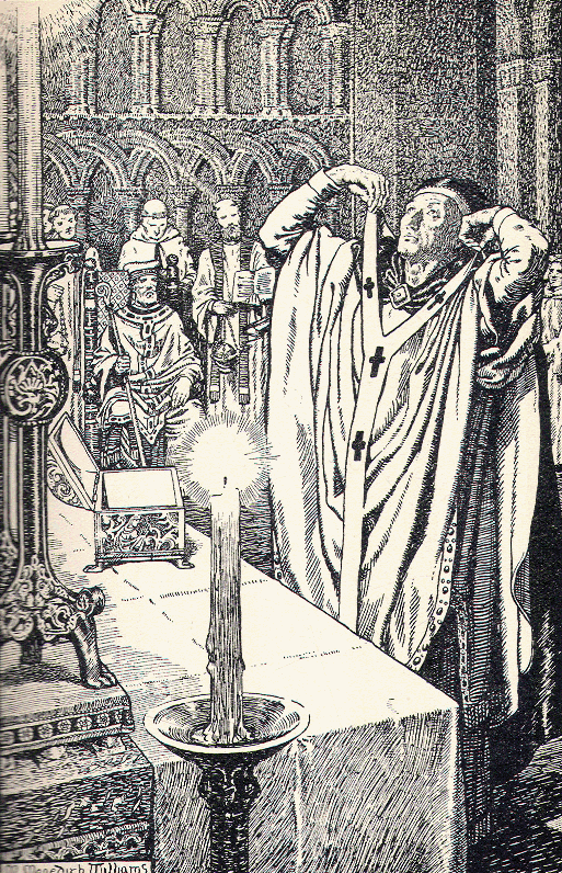 "Anselm Assuming the Pallium in Canterbury Cathedral", from "The Pallium Comes to England", p. 136.